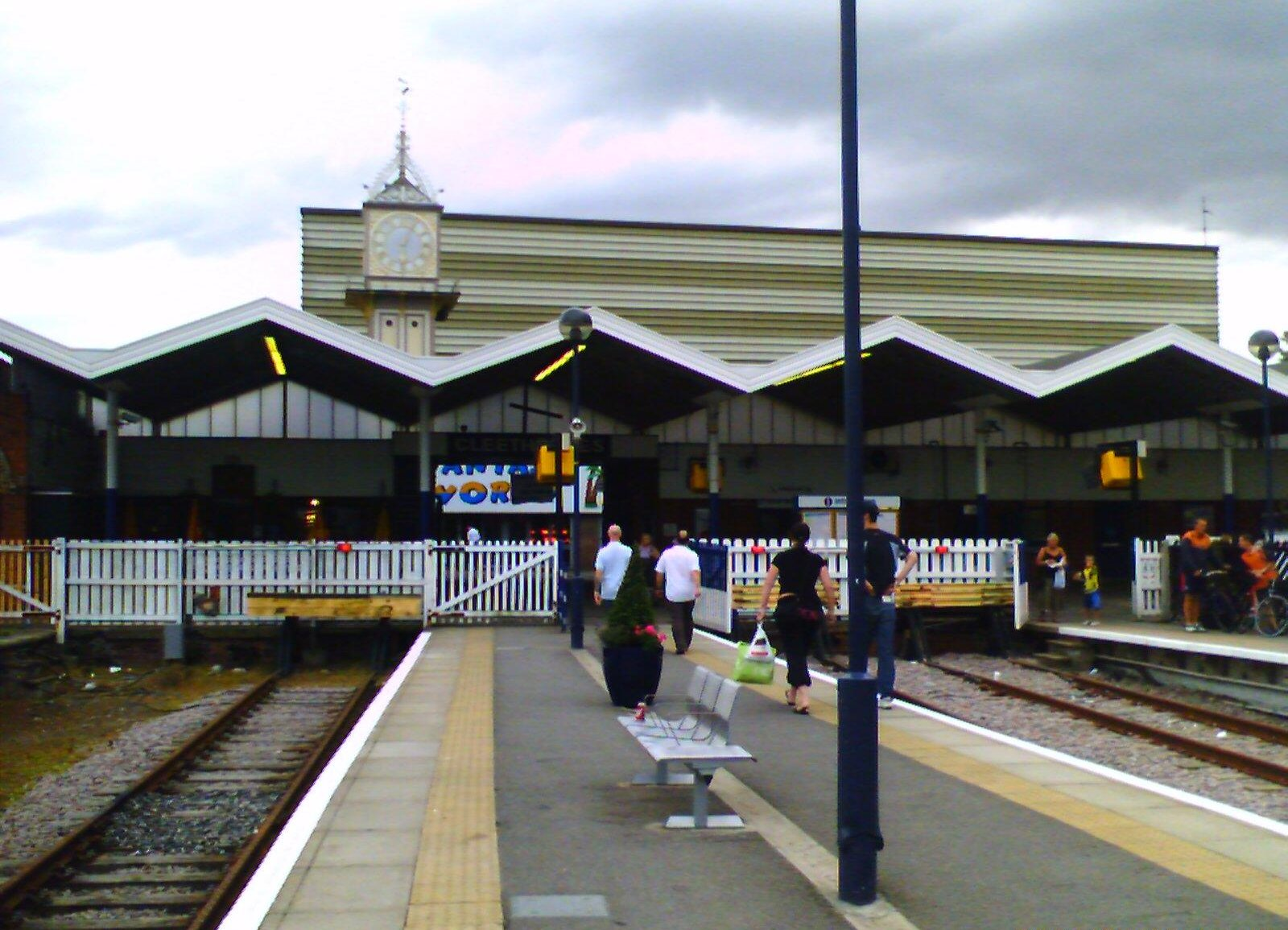 Cleethorpes Railway Station (Manchester-Cleethorpes line). Photo by E Asterion u talking to me?